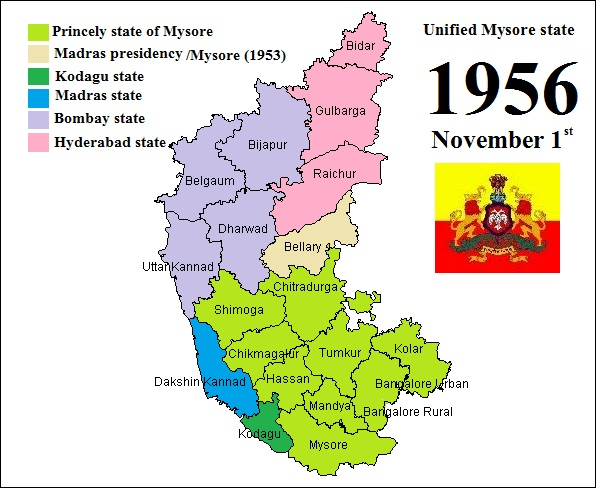 Unified Mysore State 1956